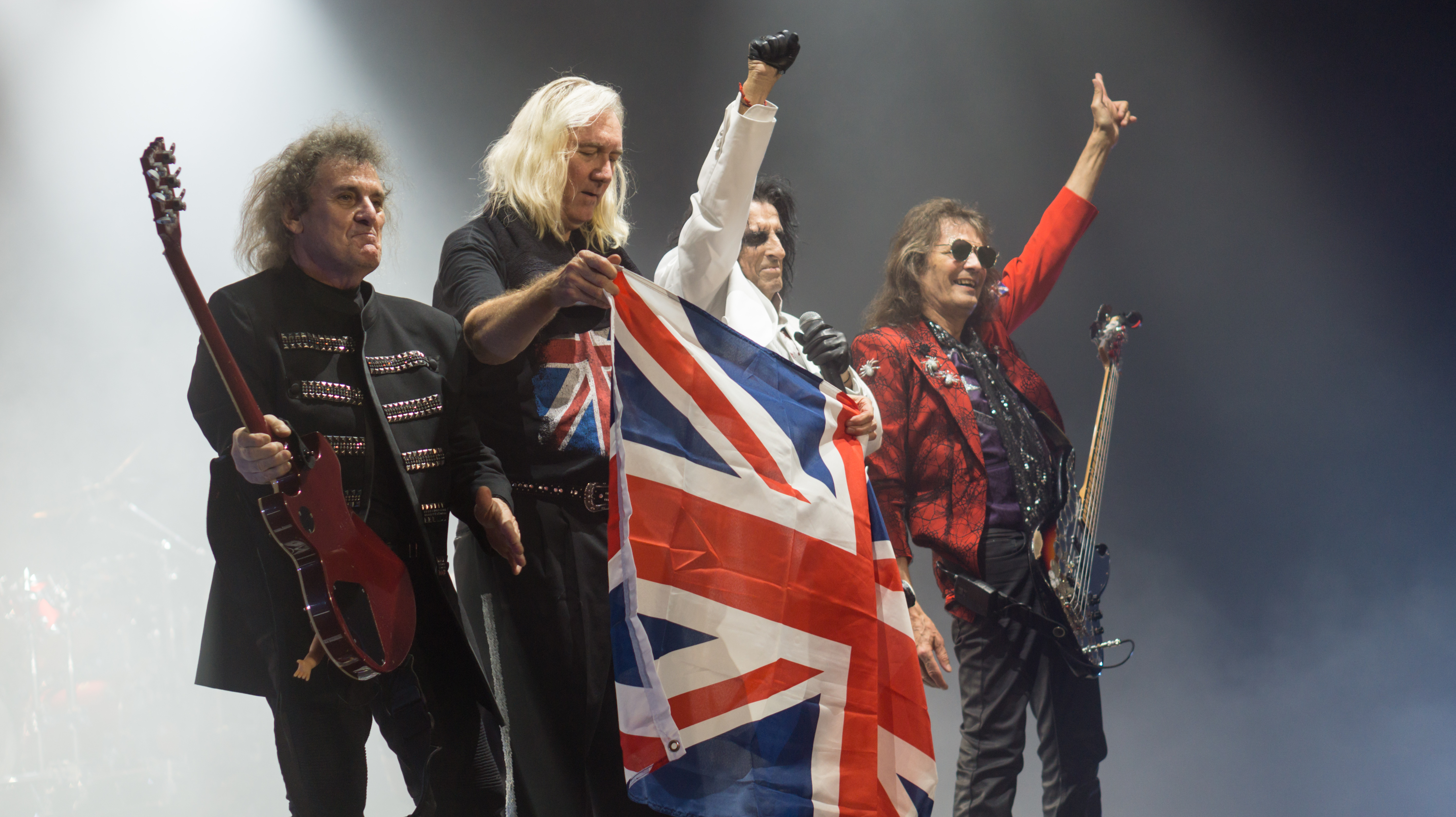 AliceCooperSSE161117-101